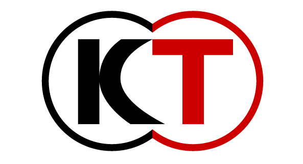 Koei Tecmo Holdings logo